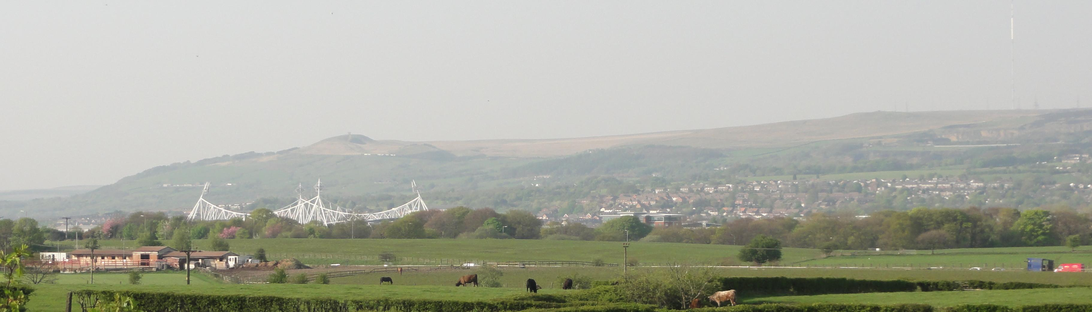 Reebok stadium with Rivington Pike in background